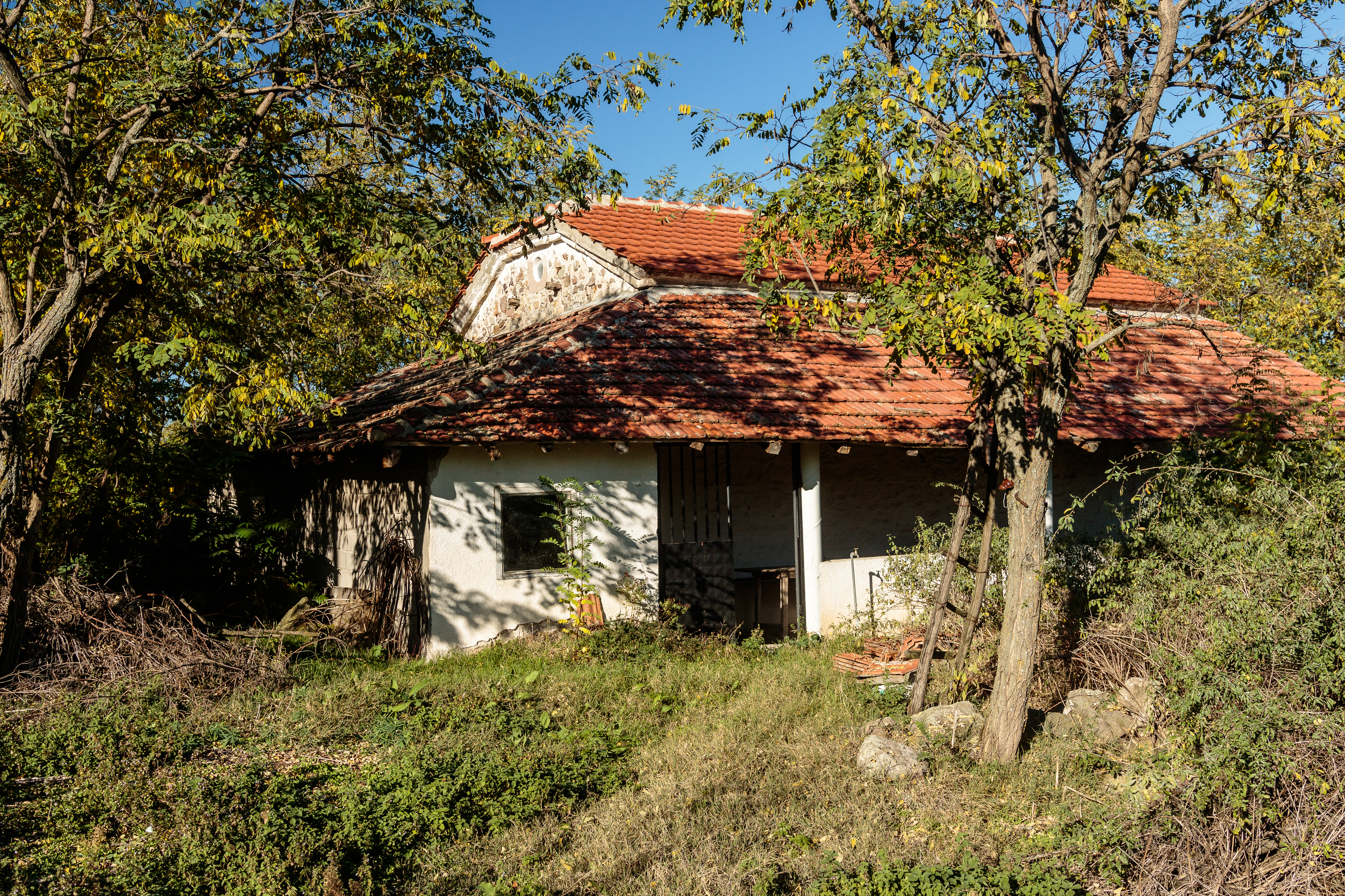 Holy Trinity Church in the village of Troolo, Zletovo-Probištip Region, Macedonia